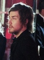 Julien Doré, French singer